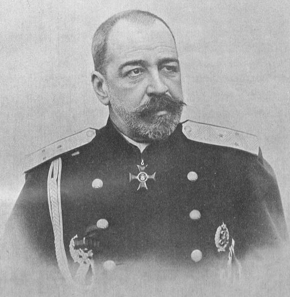 Pyotr Dmitrievich Sviatopolk-Mirskii